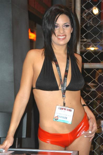 Mia Banggs at the 2007 Adult Entertainment Expo